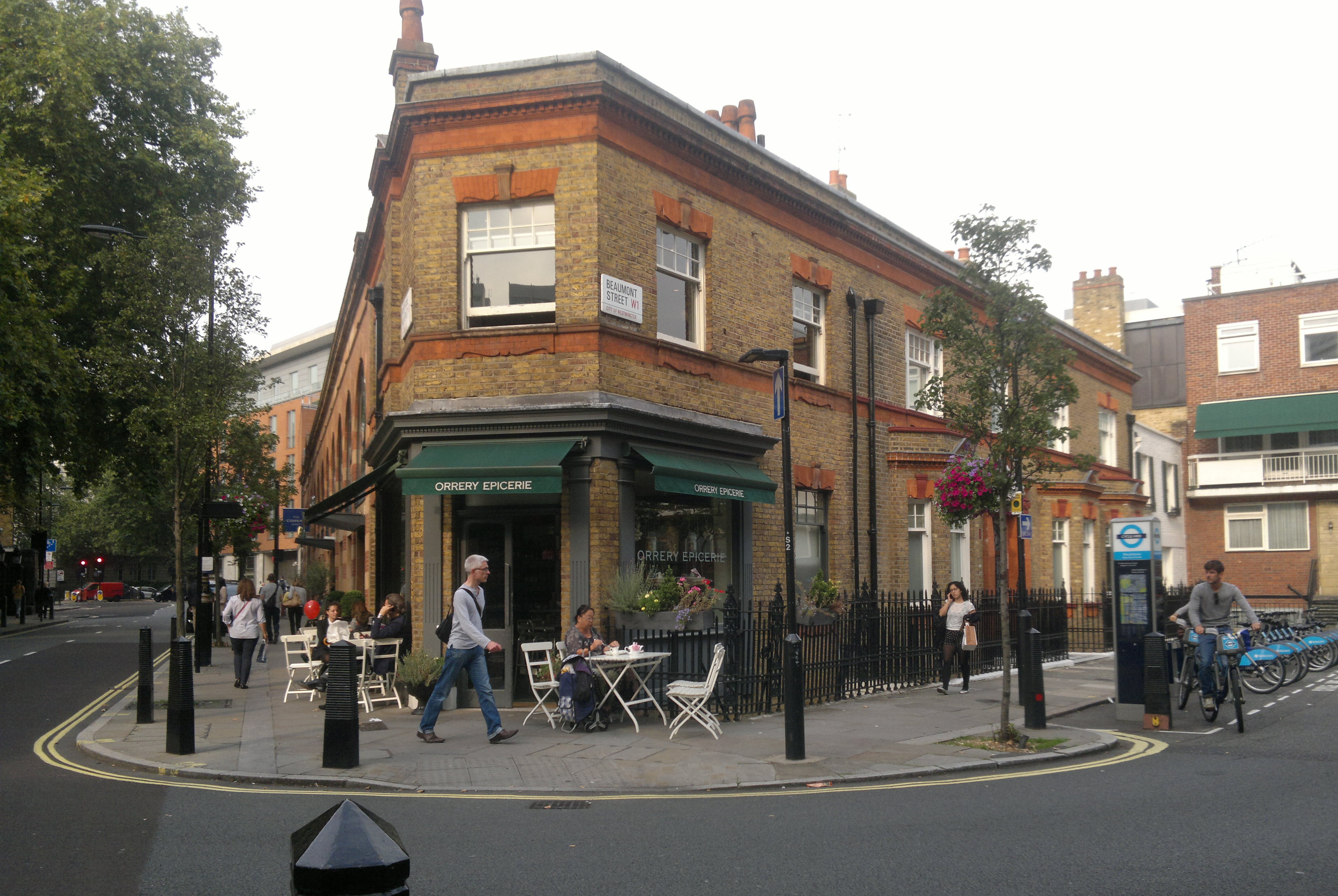 Orrery Epicerie, Beaumont Street, London 6 Sept 2014